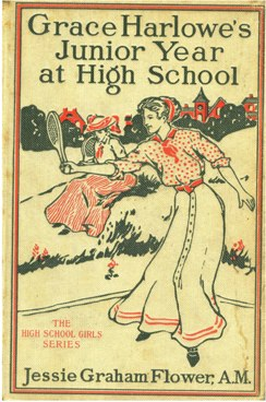 An early front cover design for Grace Harlowe's Junior Year at High School, published by the Henry Altemus Company (1842-1936), Philadelphia, Pennsylvania, USA